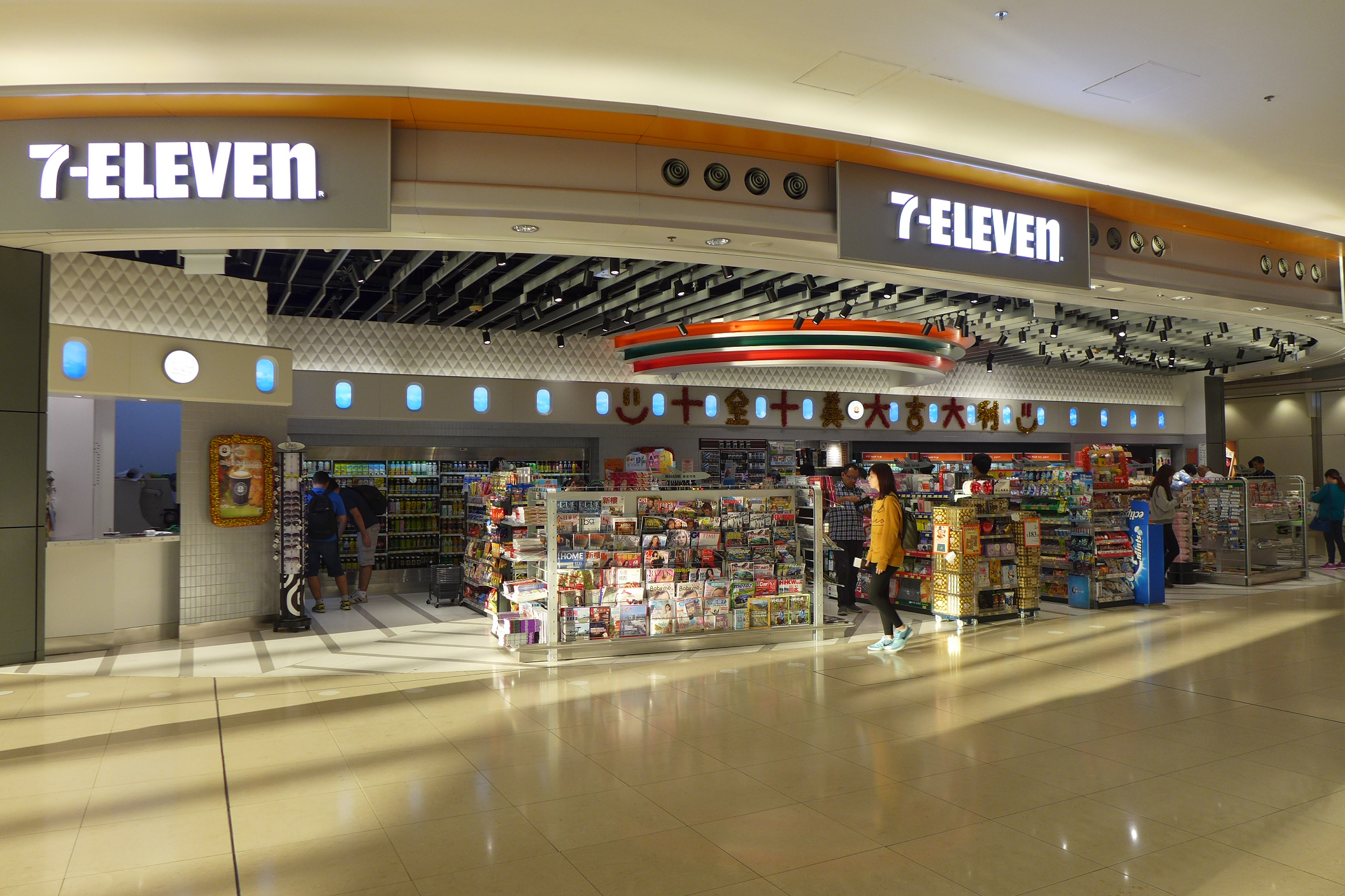 7-11 in Hong Kong International Airport Terminal 2